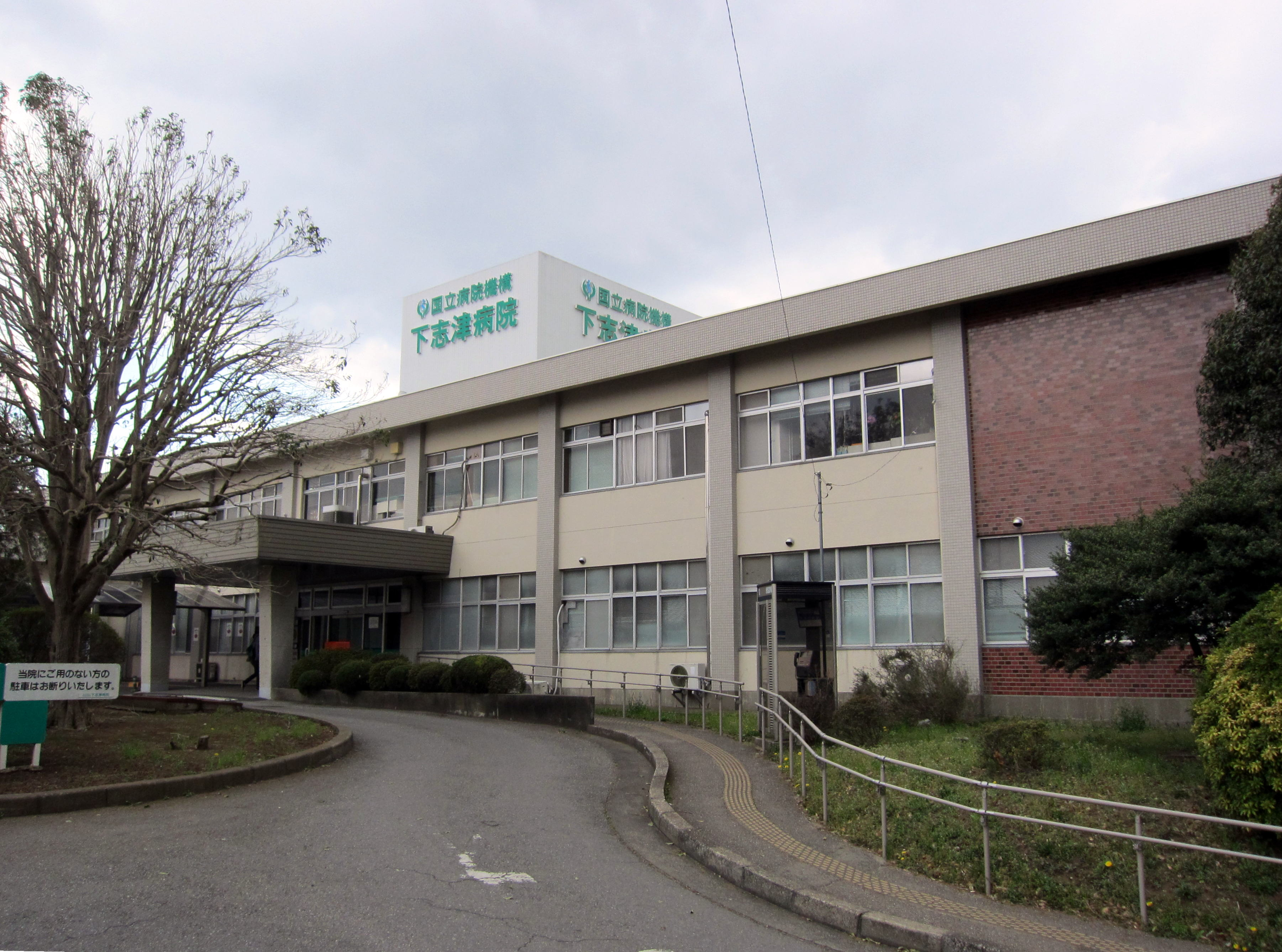 National Hospital Organization Shimoshizu National Hospital